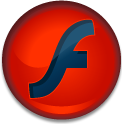 Computer icon for Macromedia Flash Player 6.